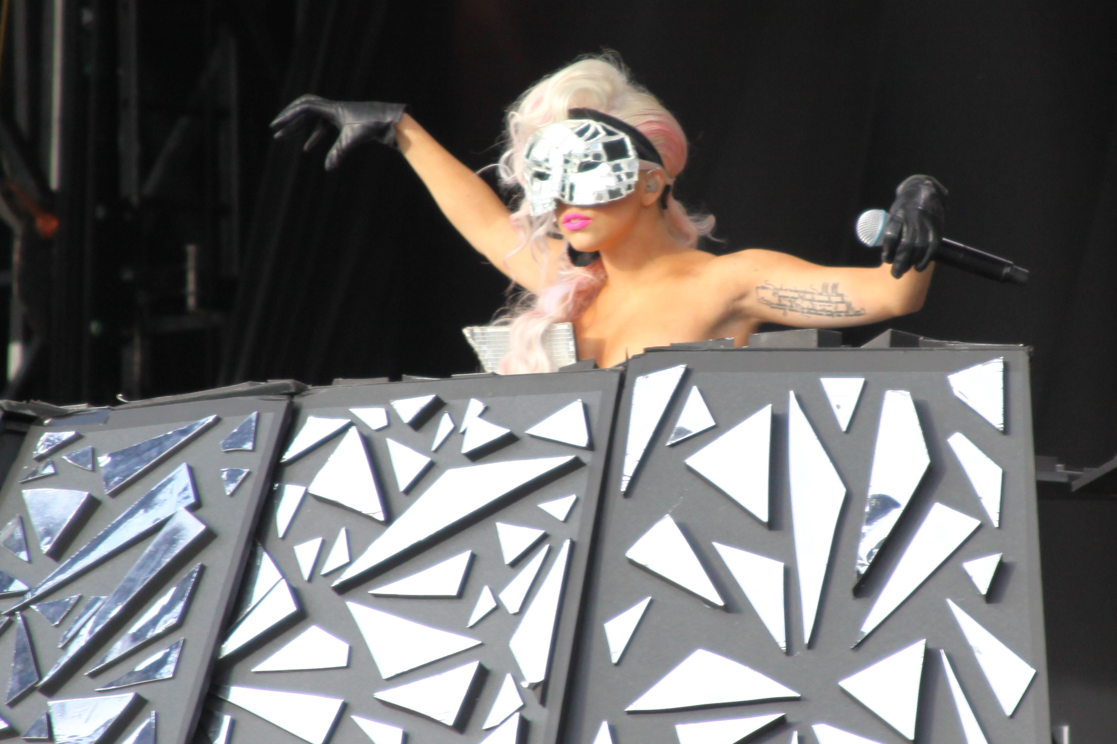 Lady Gaga comes out from behind broken mirrors during her performance at the Summer Sonic Music Festival held from the Aug. 7-9 in Osaka. Over the course of an hour, Gaga managed to cut her leg, throw her glasses into the audience, forget where she was, play the piano with her feet and improvise an “I Love Osaka” song to “O’ Christmas Tree.”